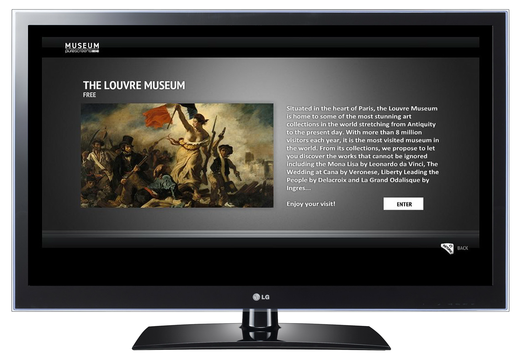 LG Electronics will launch a smart TV application on December 1, 2011 ※ LG전자 뉴스룸 에서 관련 보도자료를 확인실 수 있습니다.